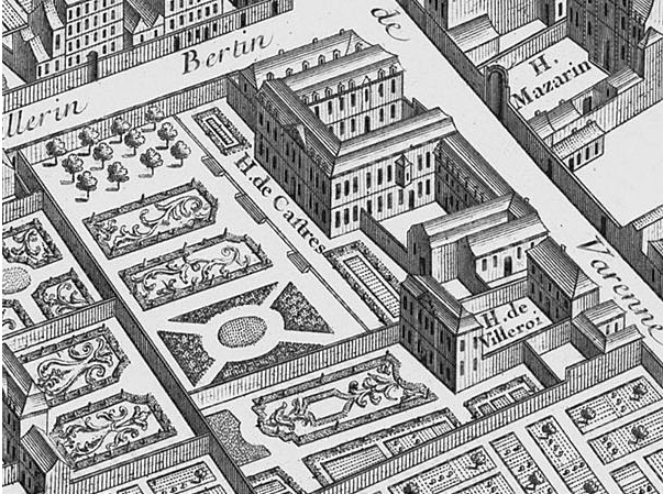 The grounds of the Hôtels of Castries, Mazarin and Villeroi from the Turgot map of Paris circa 1737